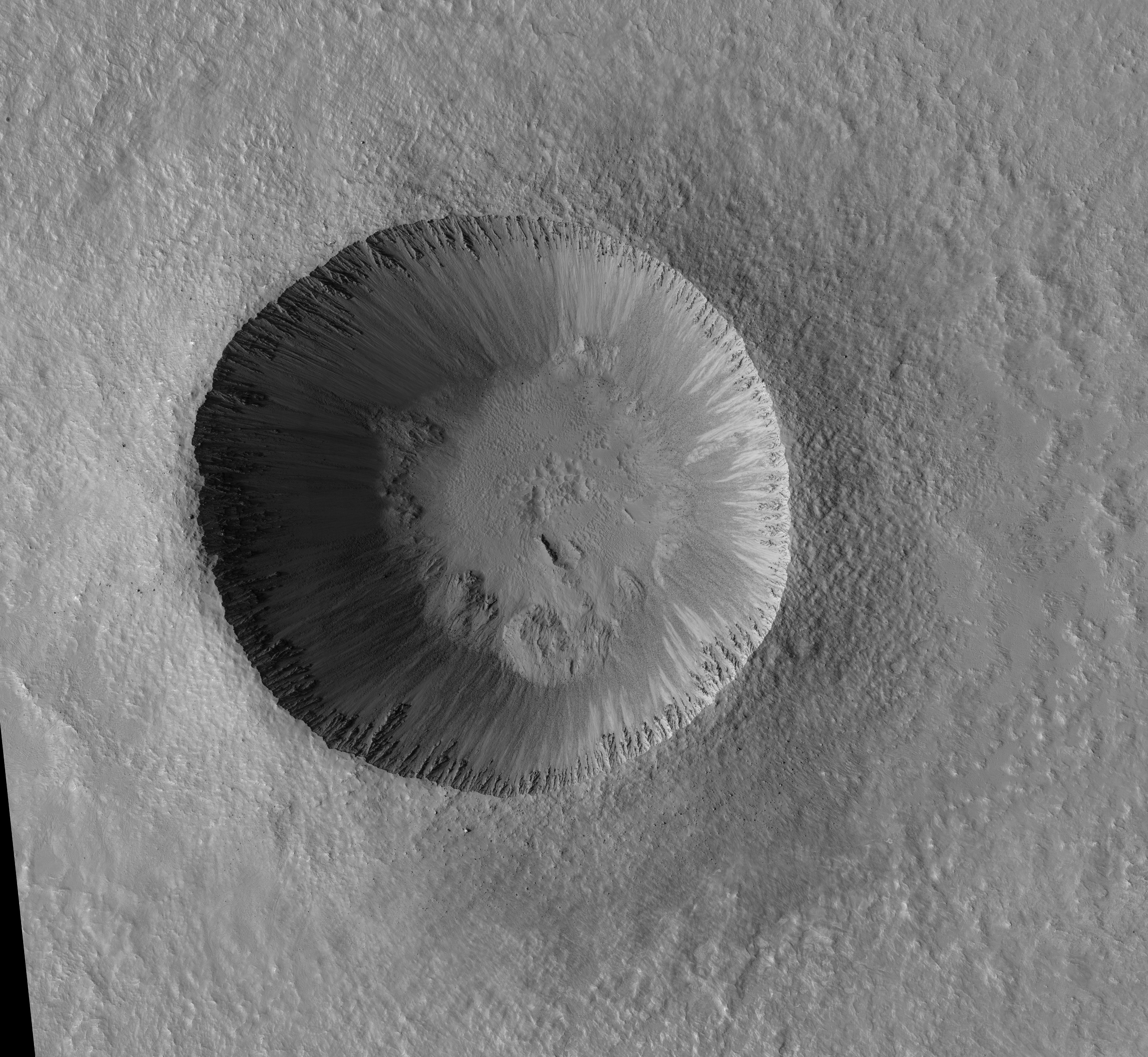 Zumba Crater, as seen by HiRISE. Location is 28.7 south and 226.9 east. Image was taken by the Mars Reconnaissance Orbiter's HiRISE. The HiRISE camera was built by Ball Aerospace and Technology Corporation and is operated by the University of Arizona.